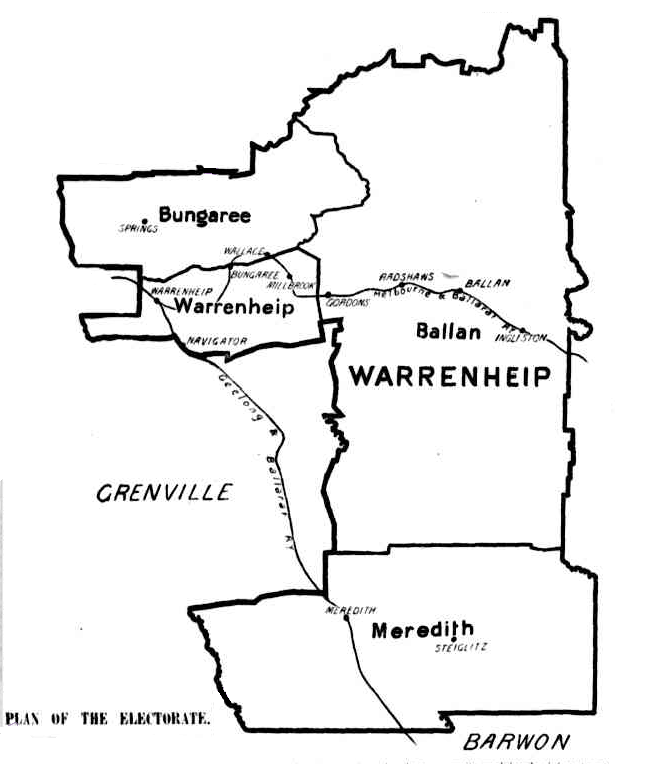 Map of the electoral district of Warrenheip (1889-1927), one of the electorates of the Victorian Legislative Assembly in Australia